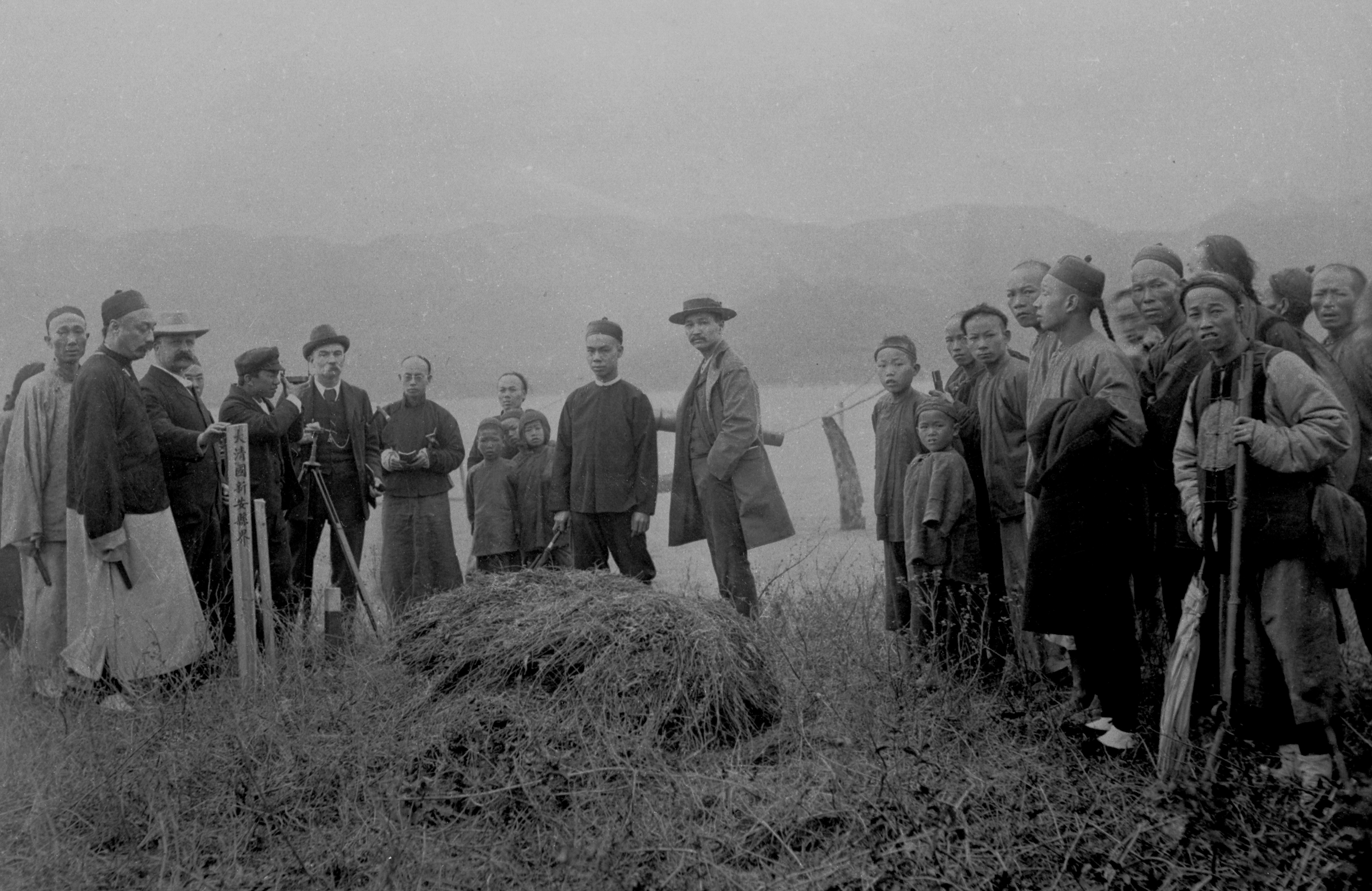 1899年新界勘界 Hong Kong. Mr Stewart Lockhart, the British Commissioner, and Mr Wong Tsun-shin, the Chinese Commissioner, fixing the first boundary mark in the shore at Starling Inlet.